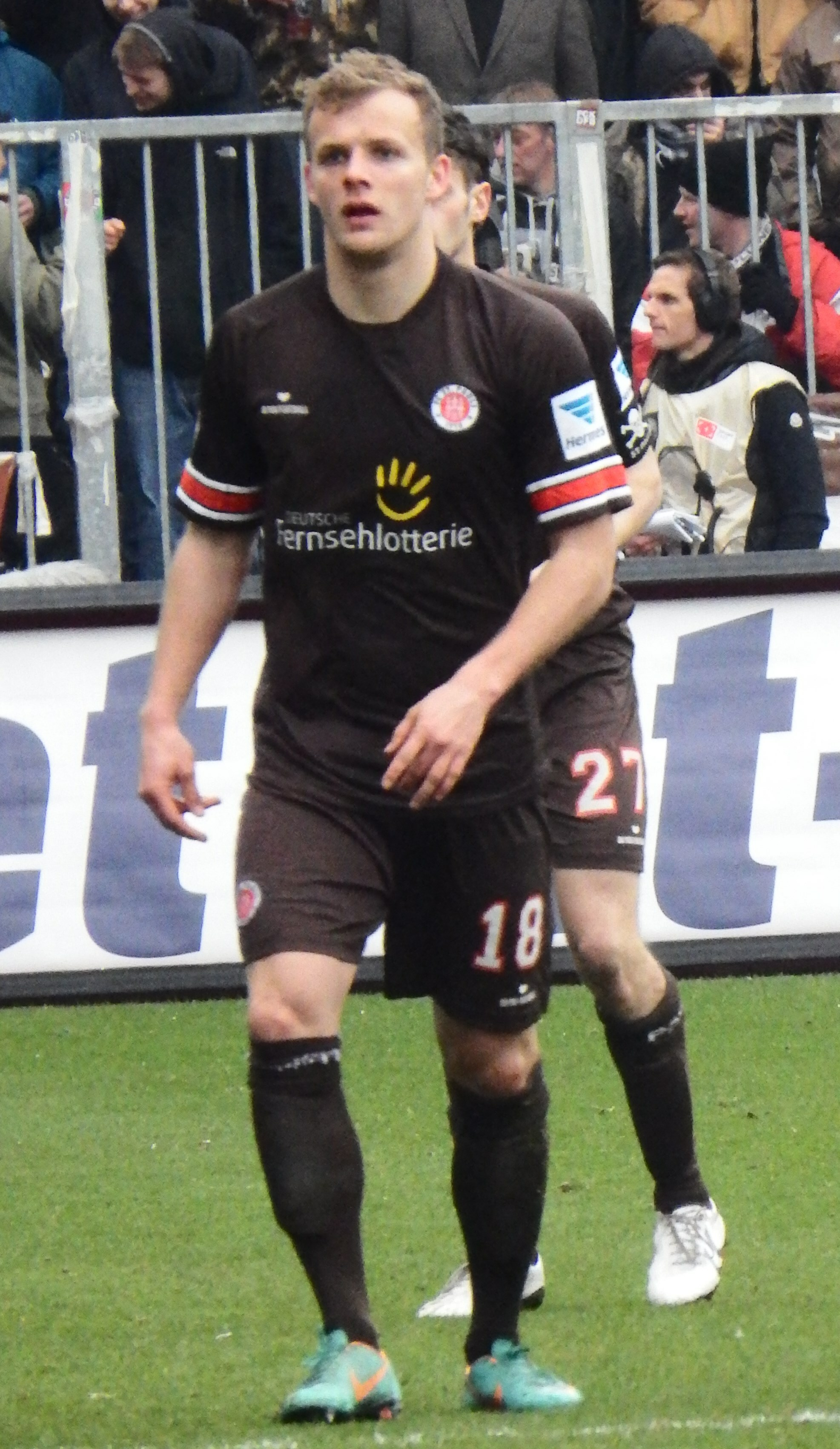 Lennart Thy as Player of FC St. Pauli